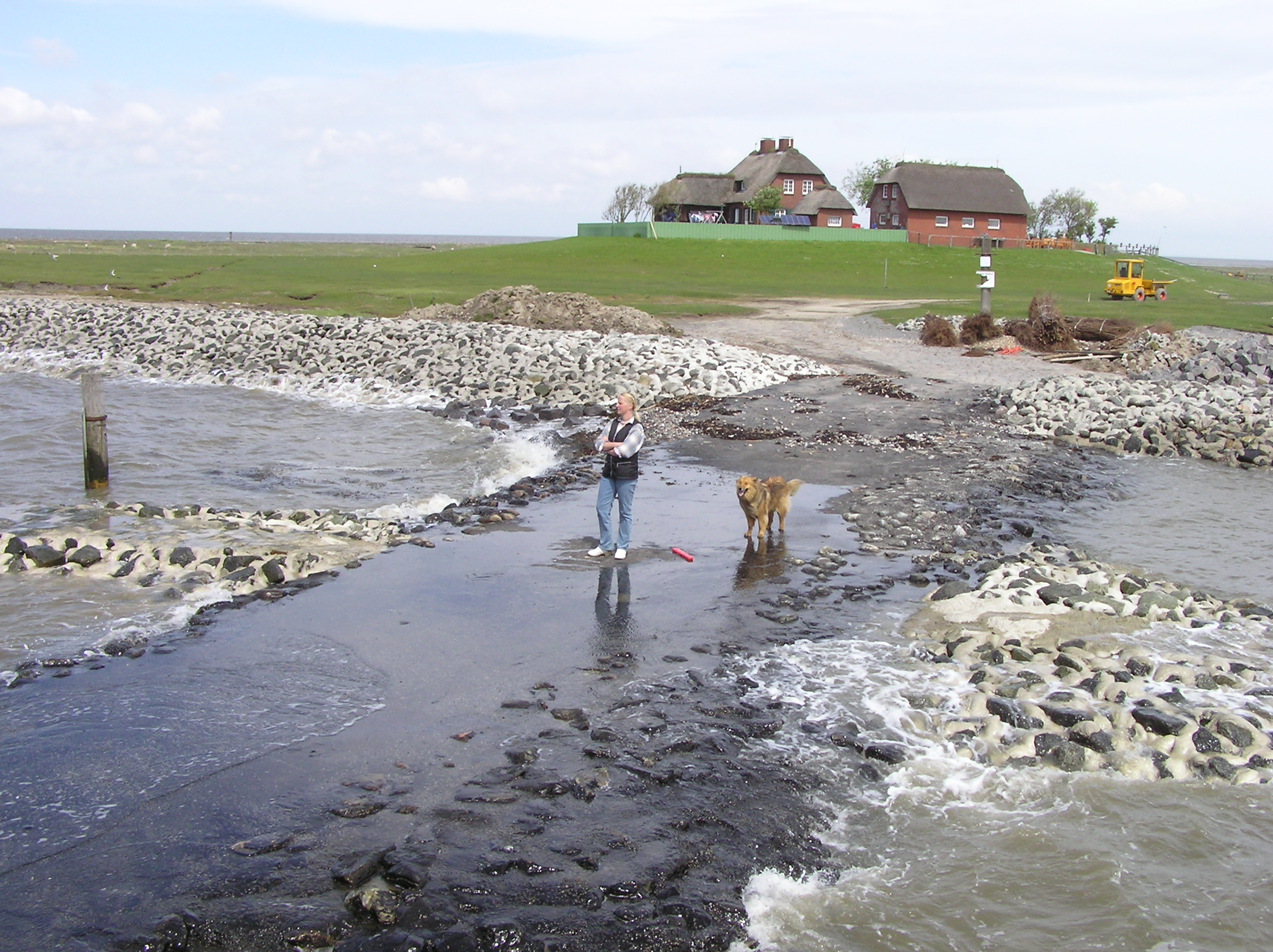 Hallig Sudfall, North Frisian Islands